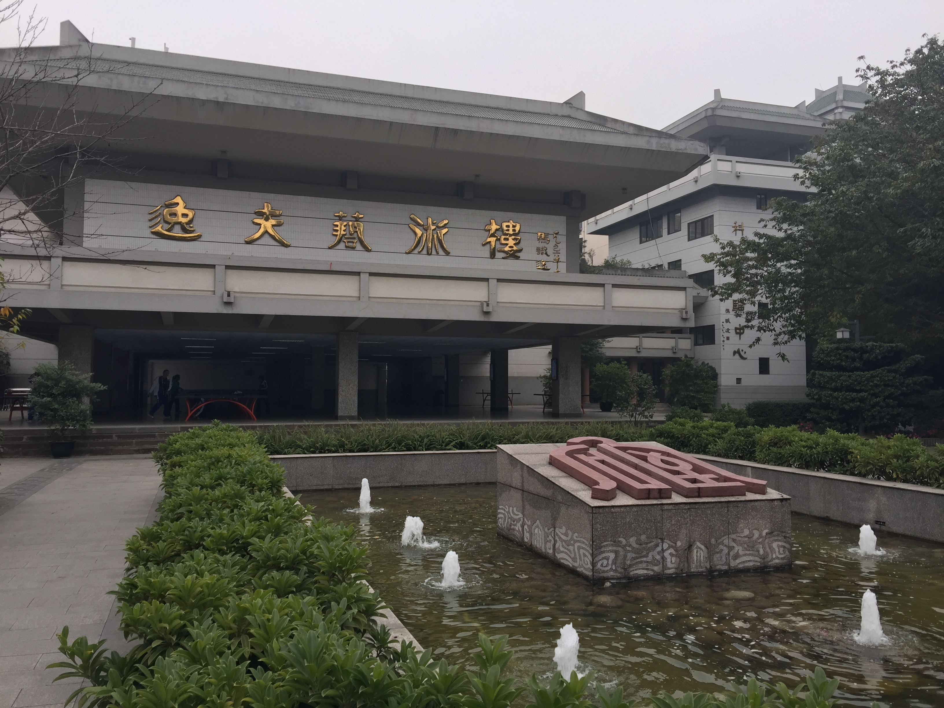 Shishi High School's auditorium building donated by Hong Kong entertainment tycoon and philanthropist Sir Run Run Shaw (邵逸夫). A new fountain is added in front of the building in recent years.